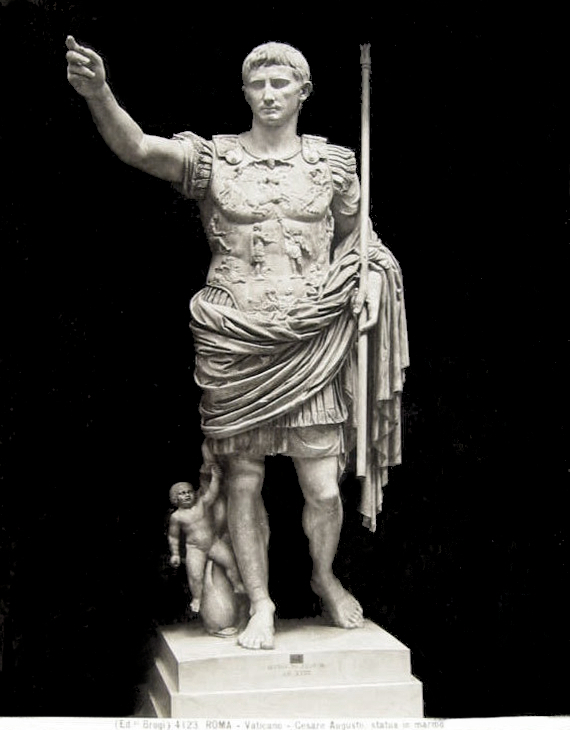 Giacomo Brogi (1822-1881) - "Vatican City (Vatican Museums) - Augustus, marble statue". Catalogue # 4123. 1870s. Today.